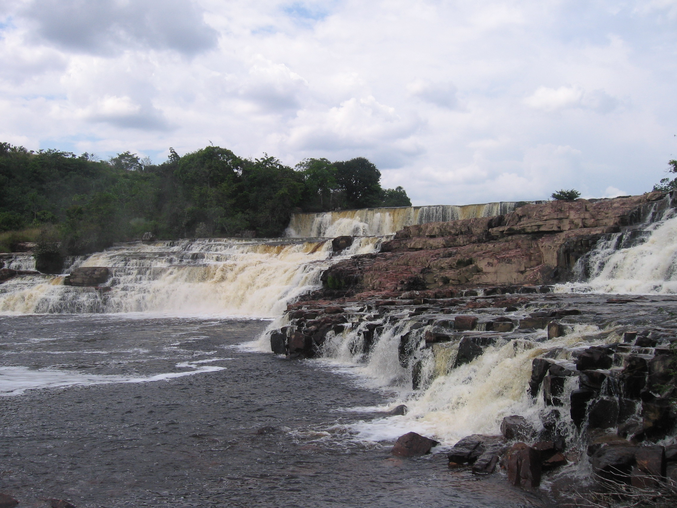 Orinduik Falls in September 2007. Taken from the Guyanese side, Brazil lies on the far bank of the river.Merlinthewizard 16:03, 25 September 2007 (UTC)